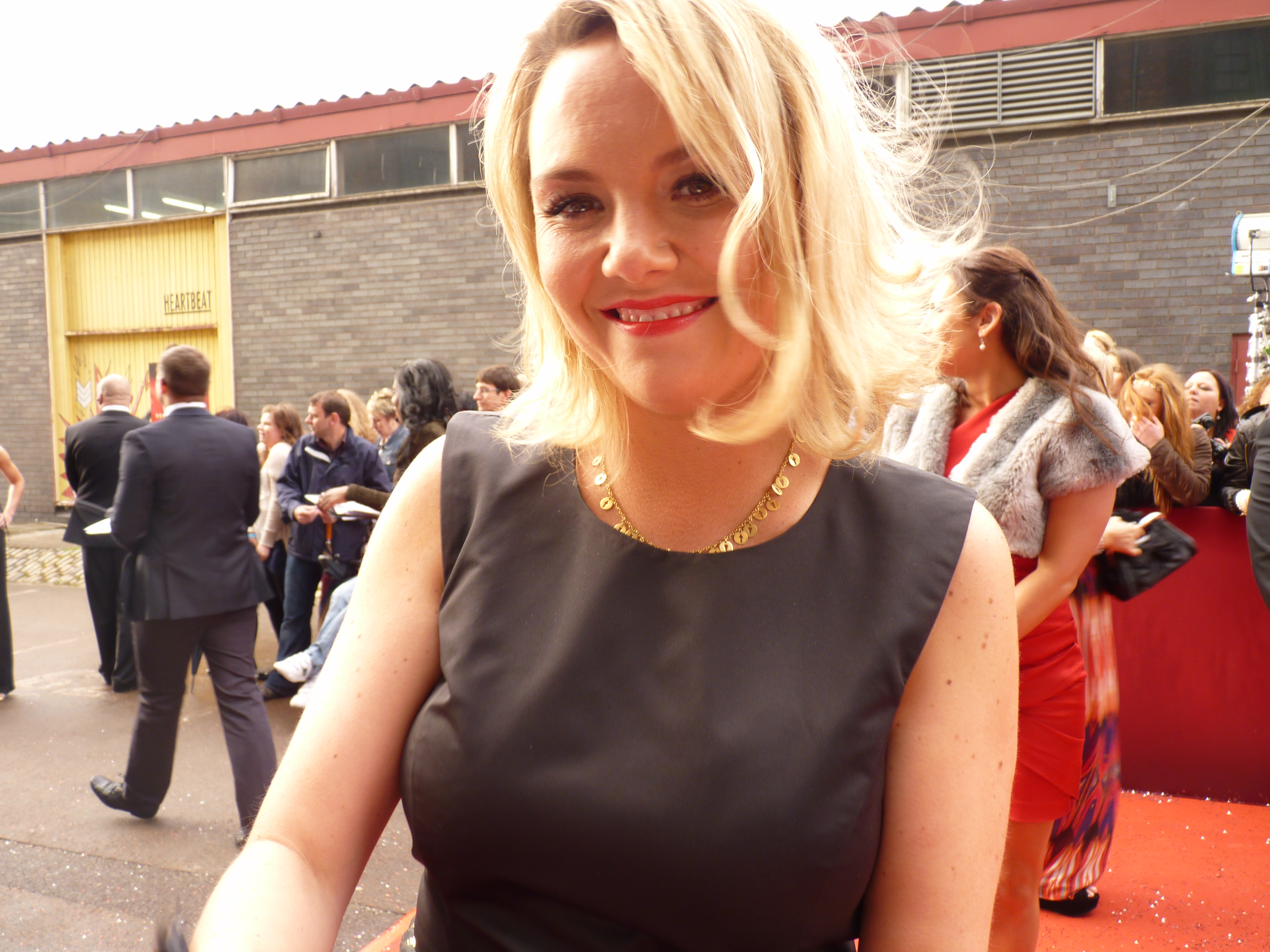 EastEnders actress Charlie Brooks at the 2011 British Soap Awards